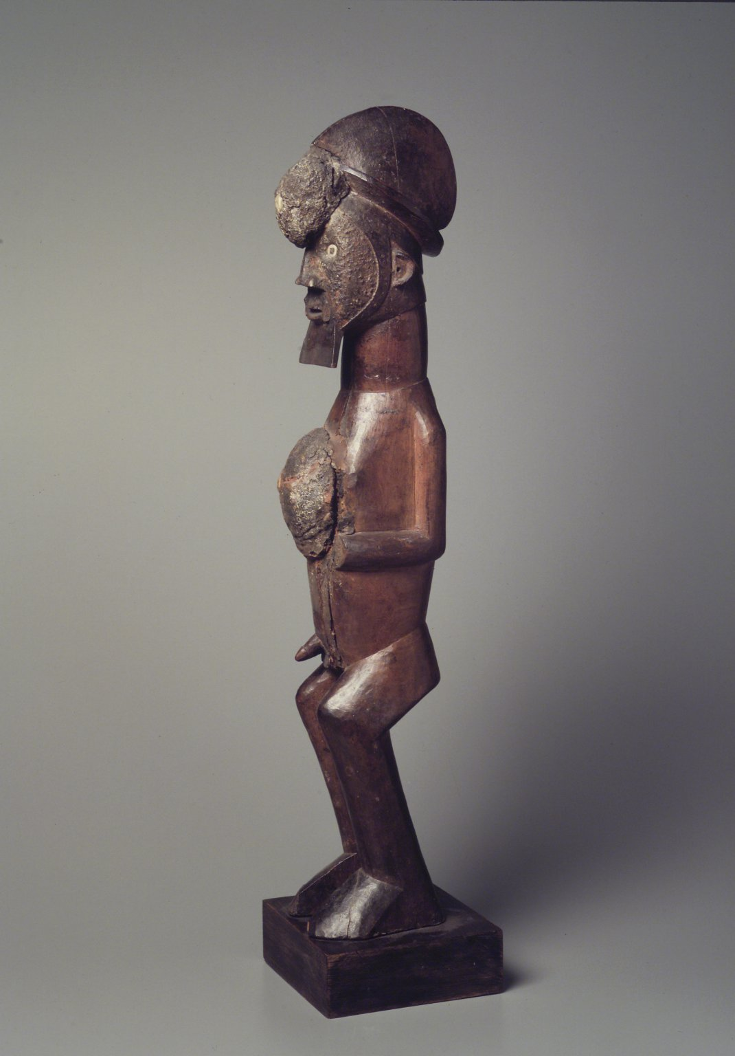 Male figure, with shiny brown patina except on face, which has matt brown surface. Two mud, red iron, and resin masses (bilongo) embedded with one cowrie shell, one on forehead, one on chest. Proportions of head, torso, and legs relatively equal; slightly crouching position. Face lined with shallow horizontal incisions, nose with incised center line and flared nostrils; crescent-shaped ears; button eyes. Trapezoid-shaped, flaring beard, also side whiskers and moustaches. Arms bend, without defined hands, placed on stomach. Small male sexual organ; blockish feet without toes. CONDITION: Long vertical cracks in front of torso, extending from neck to upper leg; cracks on side of head and on base. Moustache tips broken off; tip of left foot chipped off, top of right foot appears to have been mended.